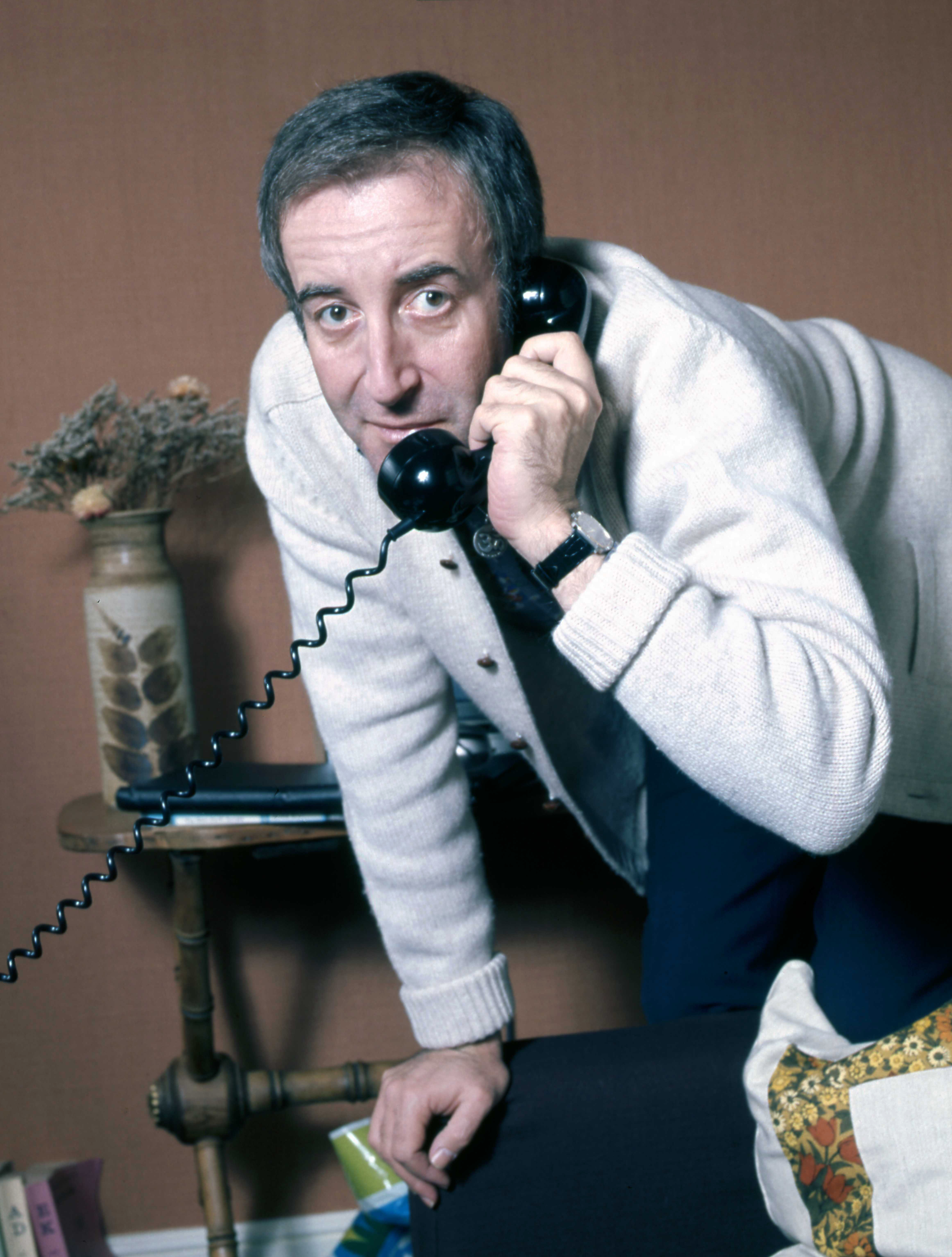 Peter Sellers at his home in London